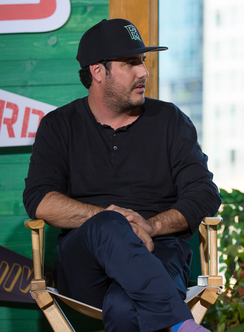 Dean Israelite at the Power Rangers movie discussion at Camp Conival offsite at Petco Park during San Diego Comic-Con 2016